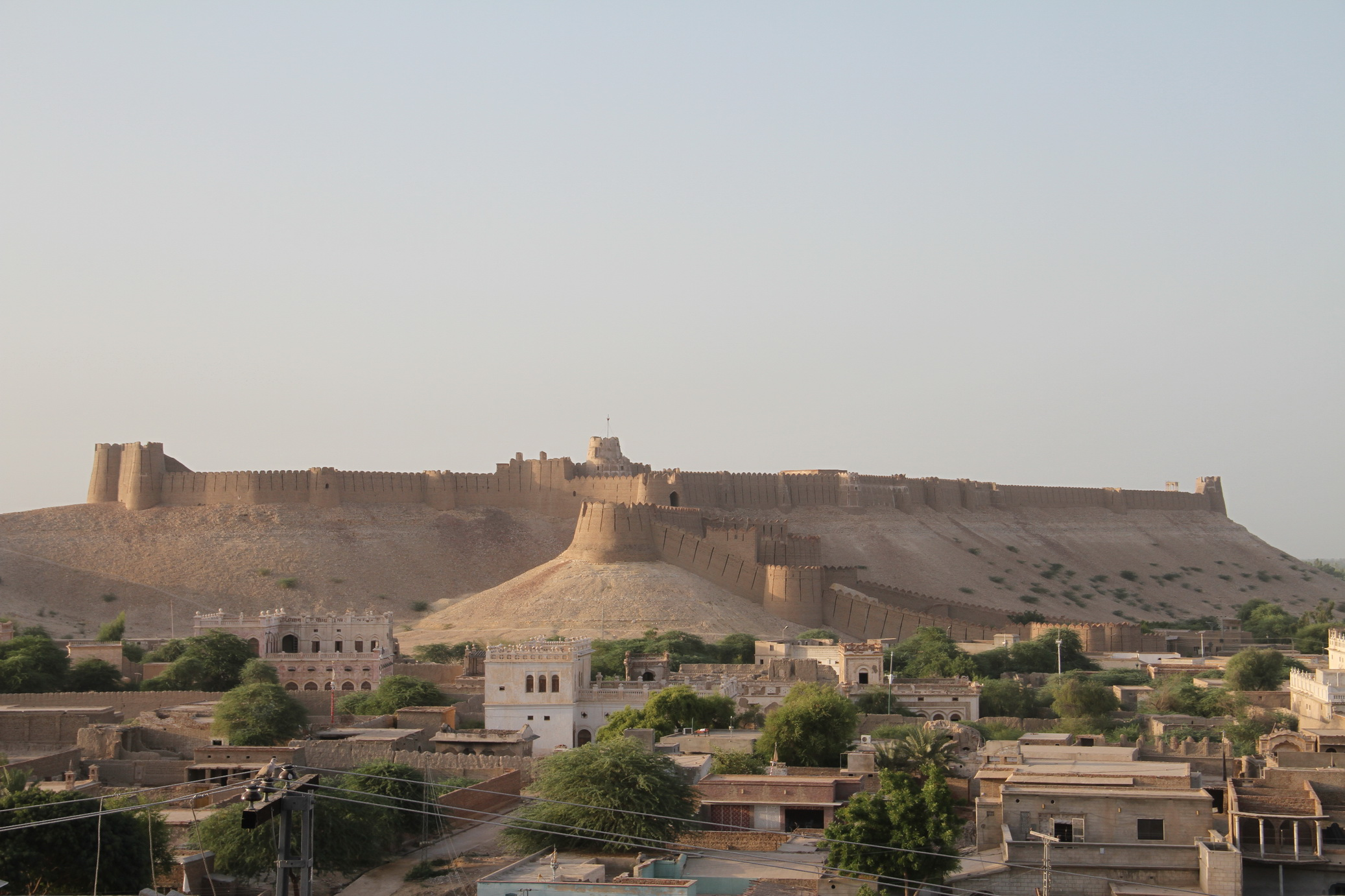 Kot Diji Fort, view from Mir of Khair Pur's palace This is a photo of a monument in Pakistan identified as the SD-38